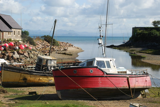 Hen Gychod Abersoch Old Boats